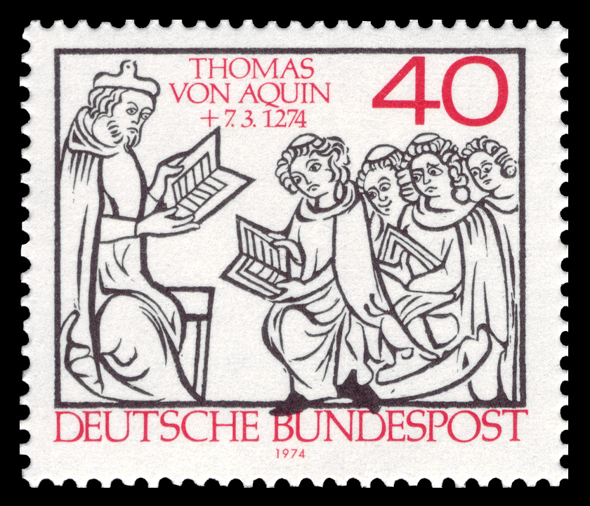 700 years of death of Thomas Aquinas (1724-1804) Graphics by Städler Ausgabepreis: 40 Pfennig First Day of Issue / Erstausgabetag: 15. Februar 1974 Michel-Katalog-Nr: 795